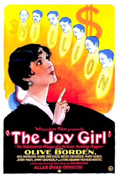 Poster for the American comedy film The Joy Girl (1927). A renewal search was done in both film and artwork for the years 1954 and 1955. There were no listings for the film title or Fox Films in either category. There's no evidence of continuing copyright on the film or its related material.